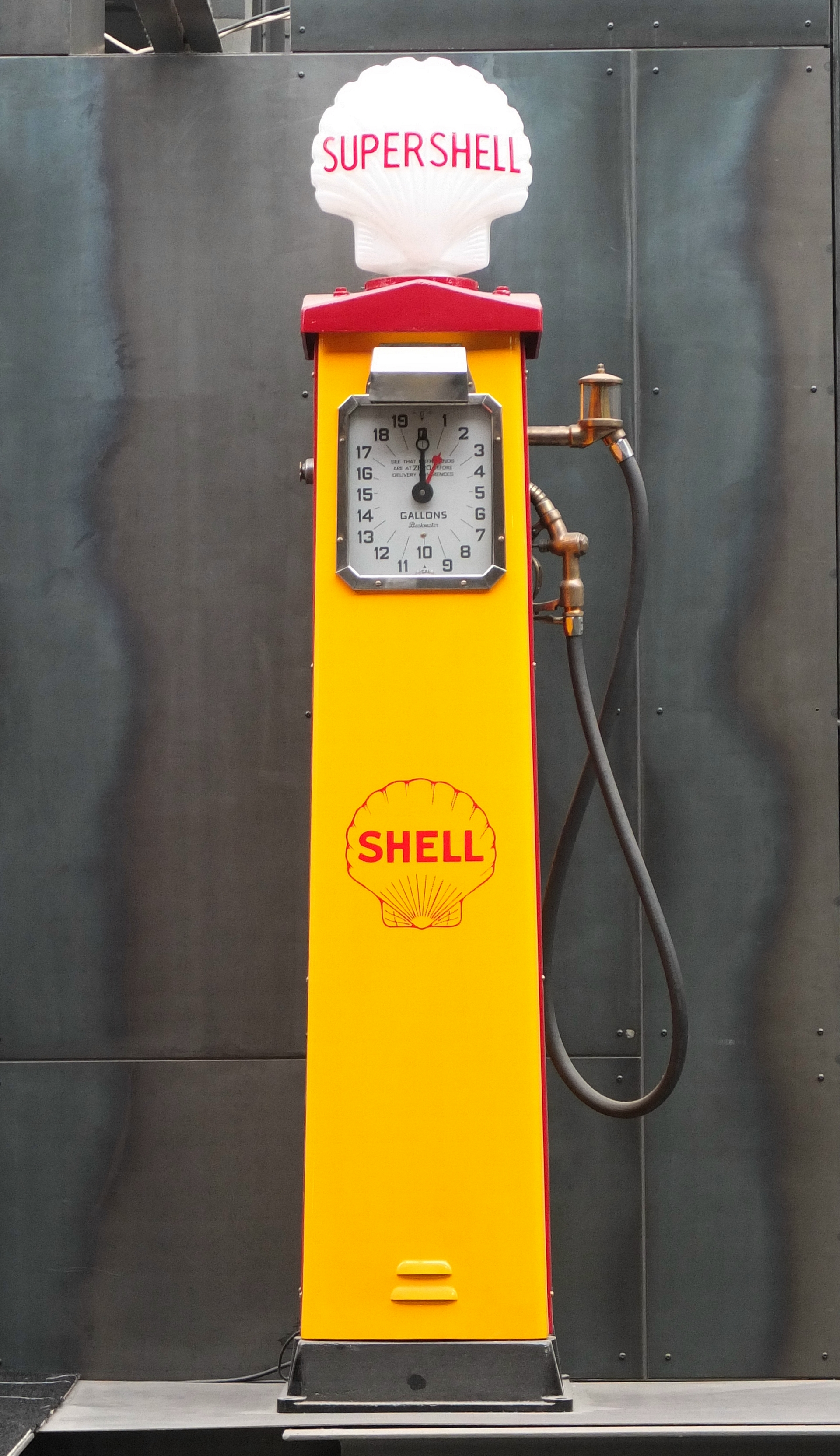 Vintage Shell petrol pump called "Beckmeter", built by Beck & Co. in Great Britain, 1930, seen at Classic Remise Berlin